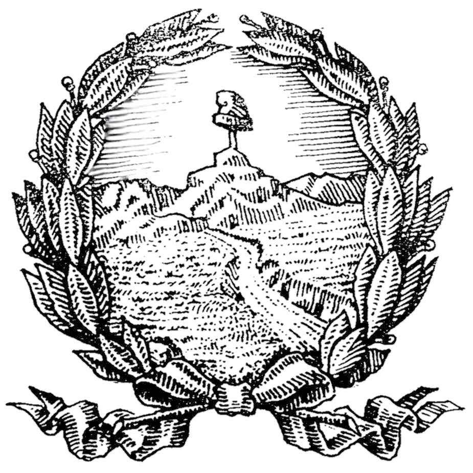 Coat of arms of the city of Mendoza in Mendoza Province, Argentina.